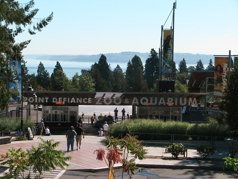 The entrance to Point Defiance Zoo & Aquarium in 2006